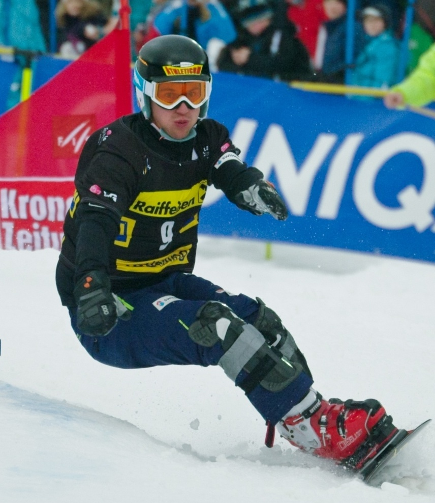 Swiss snowboarder Nevin Galmarini in the qualification round of the World Cup Parallel Slalom at the Jauerling in Austria on 13 January 2012.